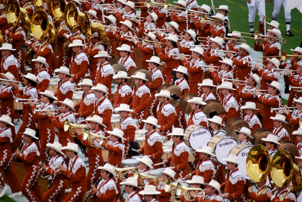 The University of Texas Longhorn Band performing at a College American football game in 2006. See also 2006 Texas Longhorn football team